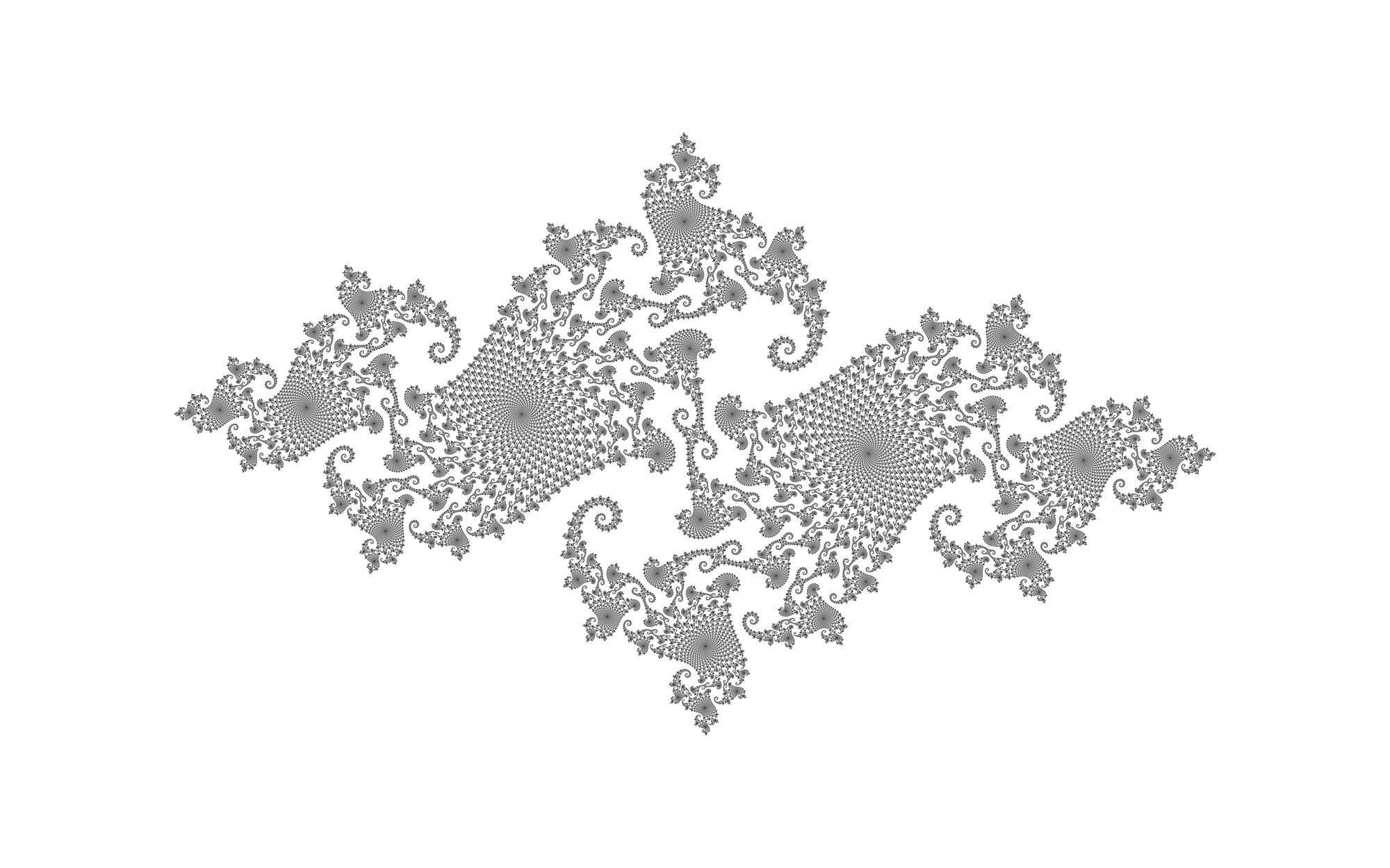 Julia set using DEM/J for c=-0.74543+0.11301*i and f(z)=z*z+c. It is the same as Fig 4.15 on page 194 from "The science of fractal images" by Peitgen and Saupe